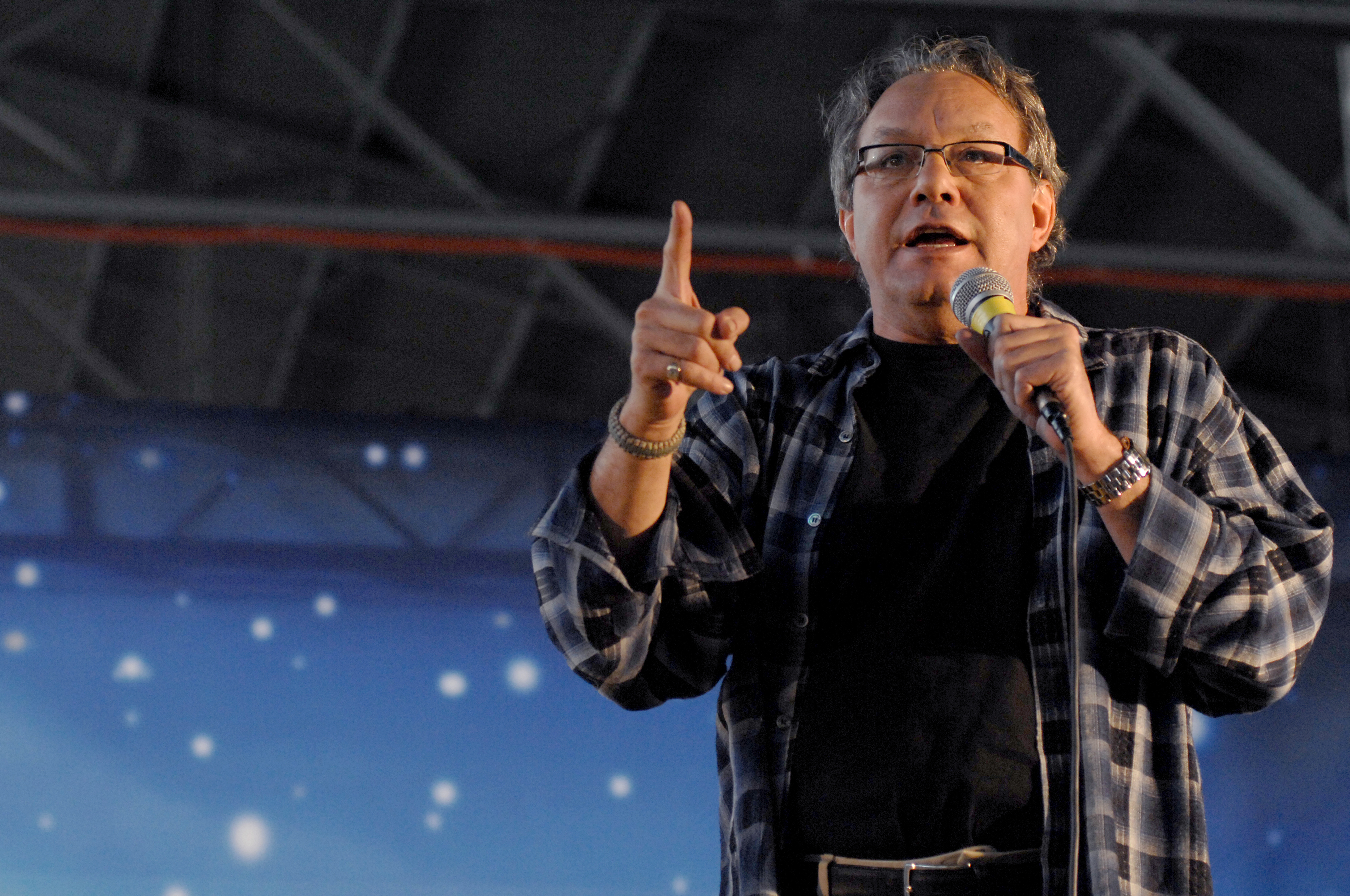 AVIANO AIR BASE, Italy-- Comedian Lewis Black performs as part of a USO holiday show held for the Aviano community, Dec. 22, 2007. Navy Adm. Michael G. Mullen, chairman of the Joint Chiefs of Staff, arrived in Aviano early Saturday afternoon from down range, bringing entertainers and celebrities Robin Williams, Lewis Black, Kid Rock, Lance Armstrong, Rachel Smith, the reigning Miss USA, and Ronan Tynan an Irish Tennor on the Chairman's United Service Organizations Holiday tour.